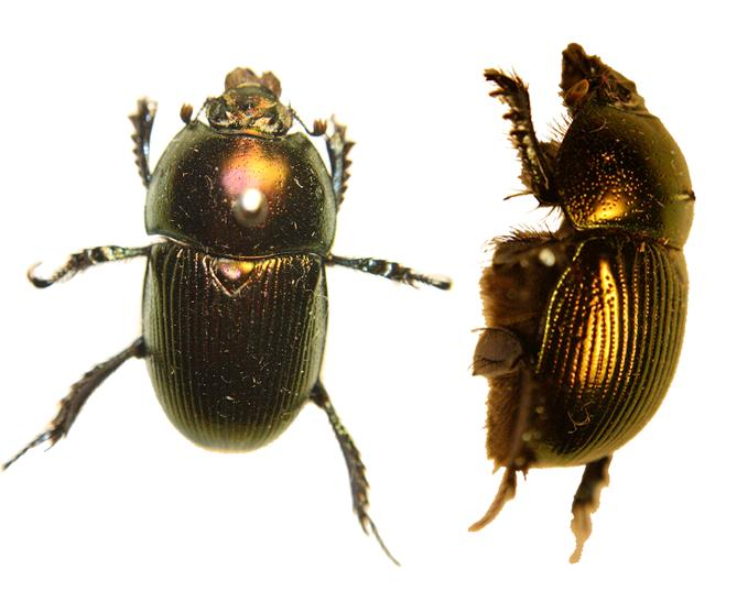 A Splendid Earth Boring Beetle (Geotrupes splendidus). Information August 25th, 2007 Fort Custer Recreation Area, Portage, MI, United States of America